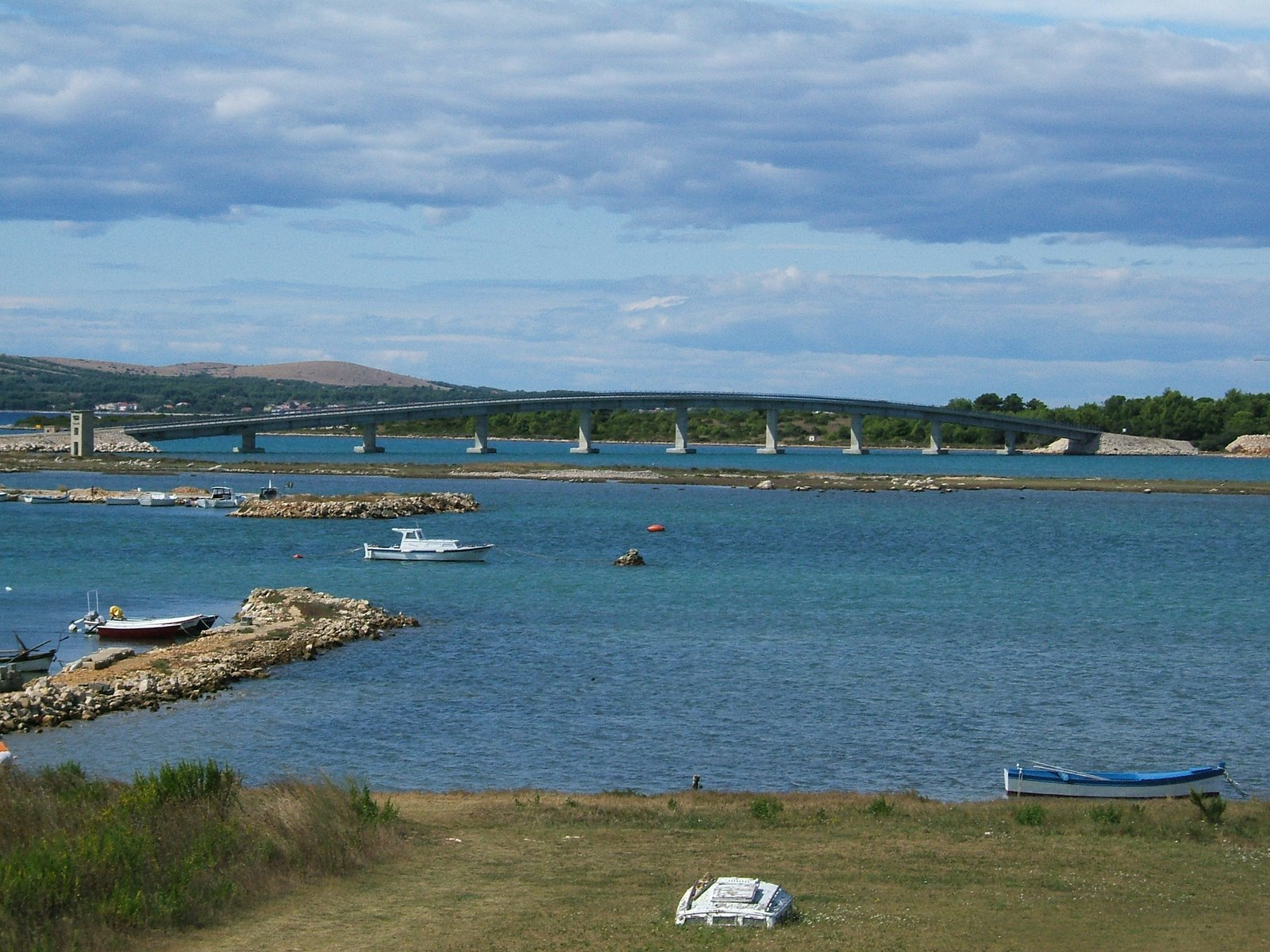 Privlaka - bridge to the Vir, Croatia.